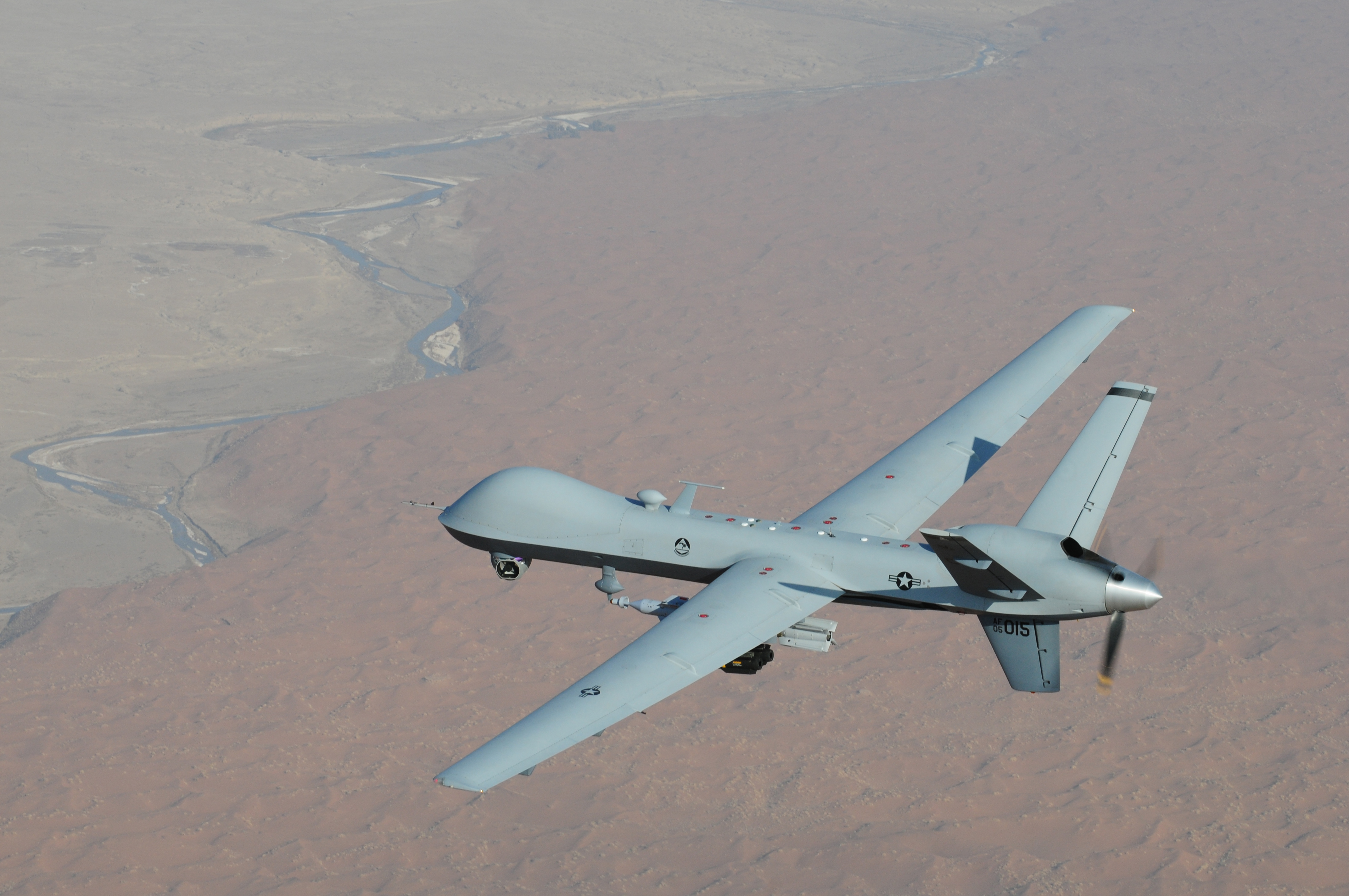 An MQ-9 Reaper unmanned aerial vehicle flies a combat mission over southern Afghanistan.